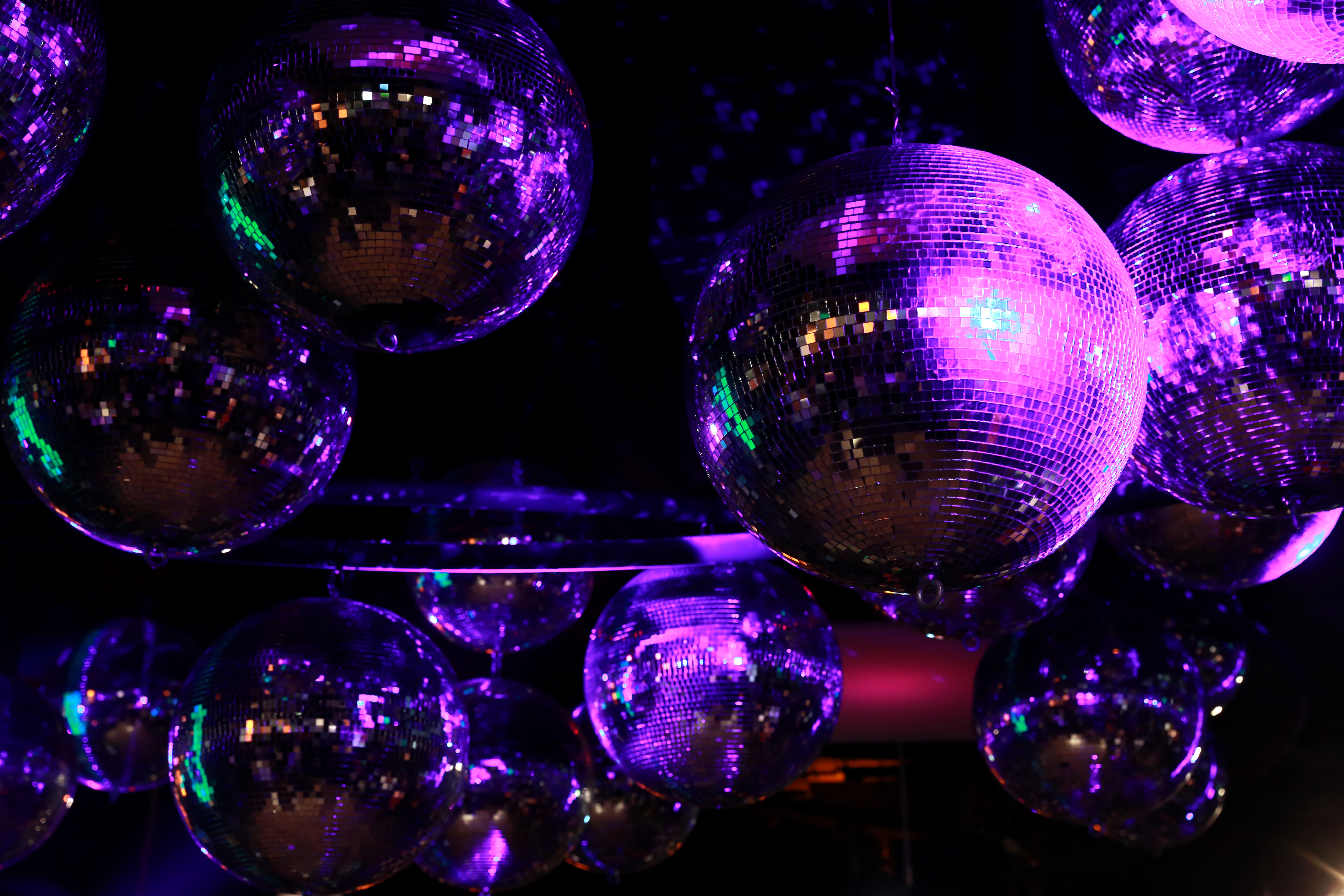 Party at the premiere for Rise Up! And Dance at UCI Kinowelt Millennium City in Vienna.